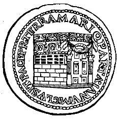 738 woodcuts illustrating the work A Dictionary of Roman Coins, Republican and Imperial (1889). To identify a coin please look at the filename to identify a page number, and check the Dictionary on numiswiki